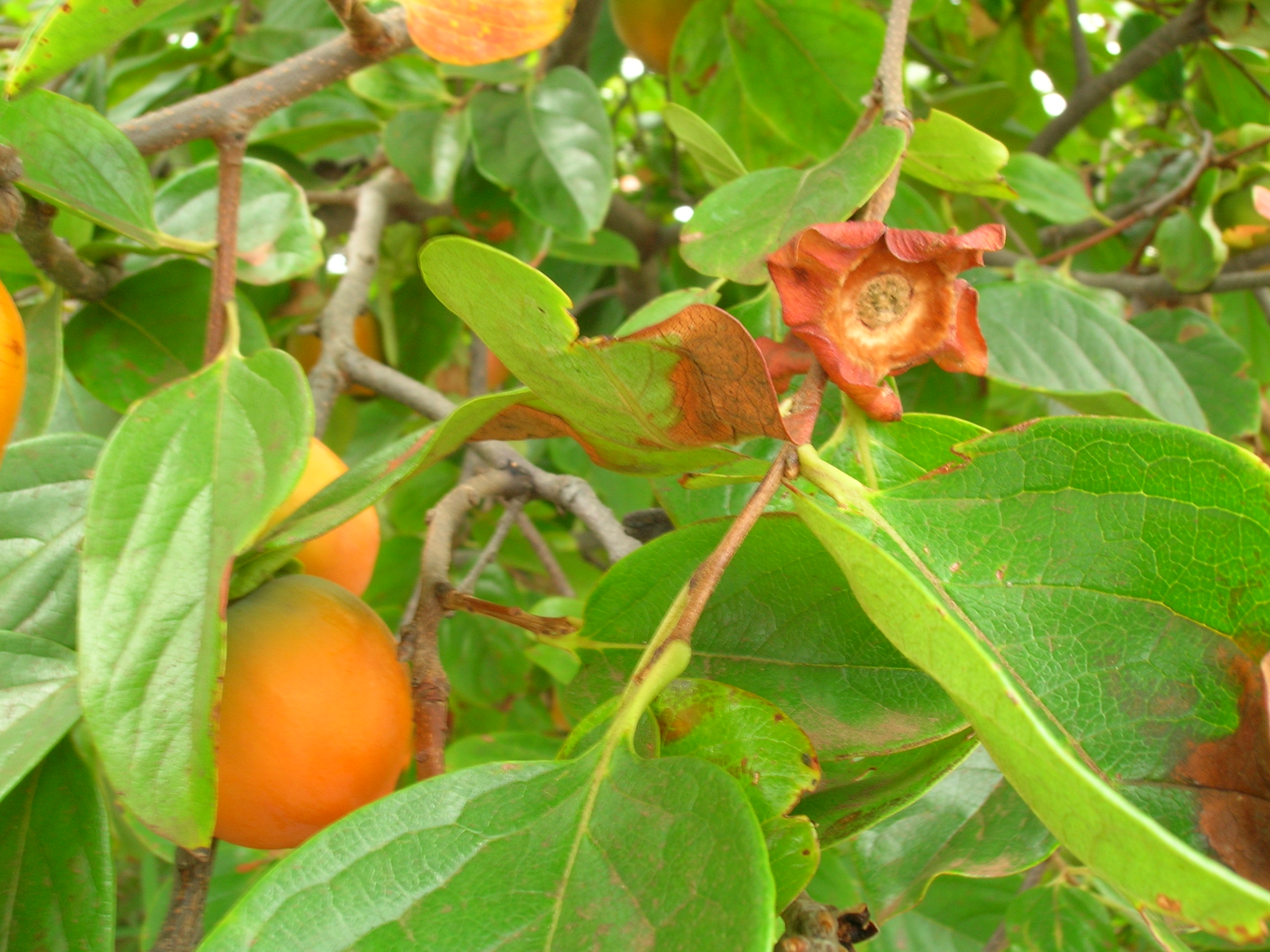 Diospyros kaki (fruit). Location: Maui, Kula